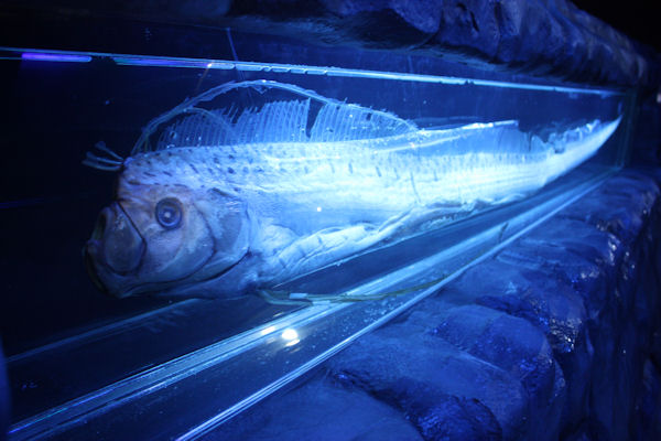 Regalecus glesne syn. Regalecus russelii at the Aqua World Ibaraki Prefectural Oarai Aquarium